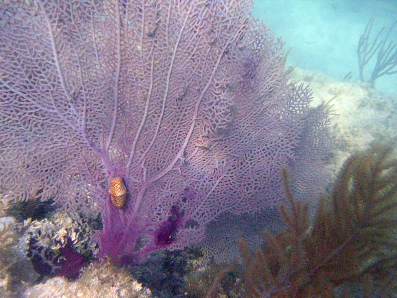 A flamengo tongue (Cyphoma gibbosum) feeding on a sea fan (Gorgonia flabellum), Bahía de la Chiva, Vieques, Puerto Rico